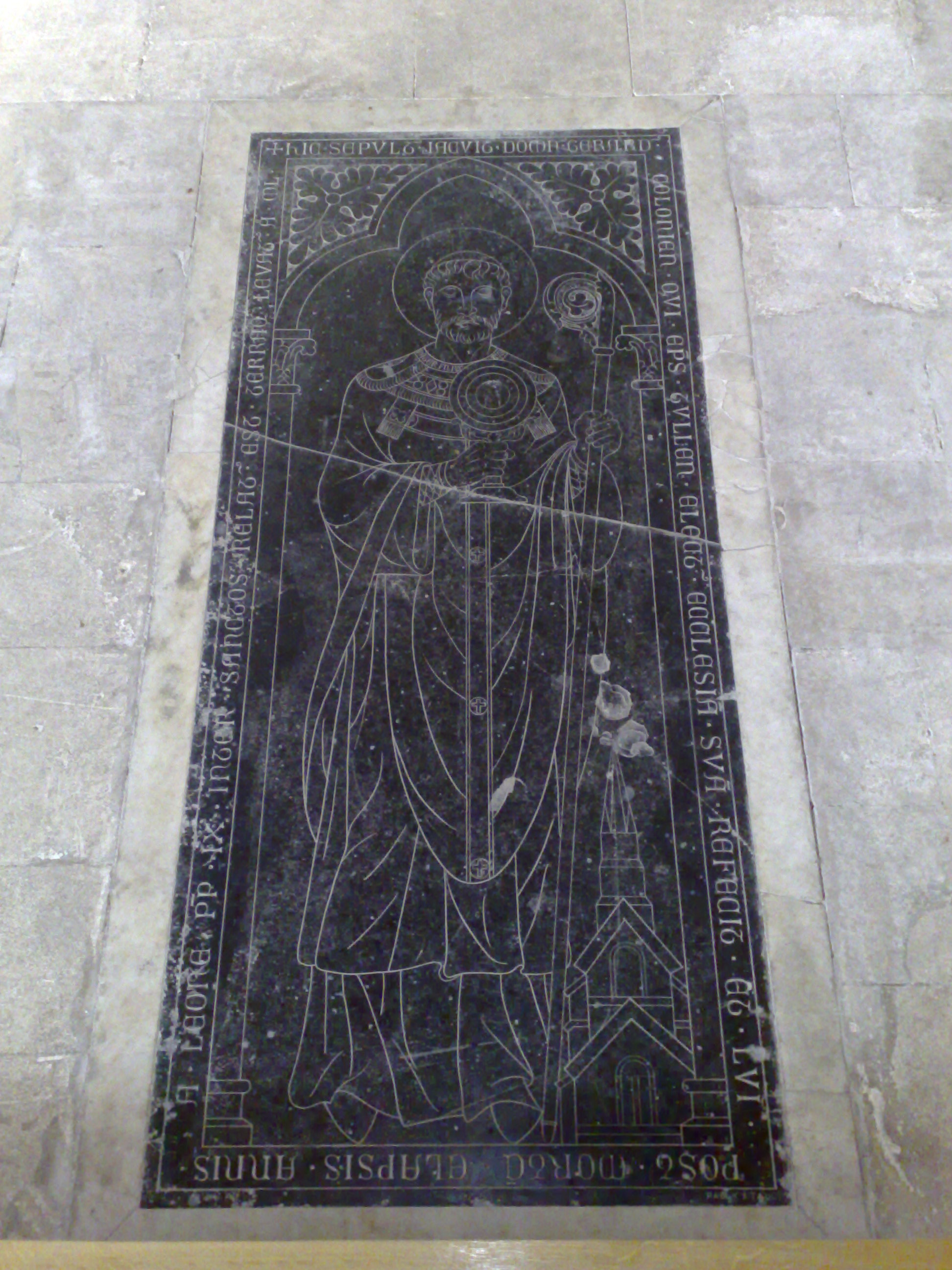 tombstone of saint Gerard in the choir of the cathedral of Toul